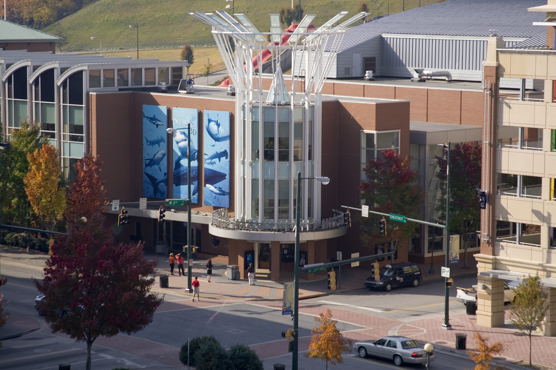 An IMAX theatre located in the Tennessee Aquarium at Chattanooga.